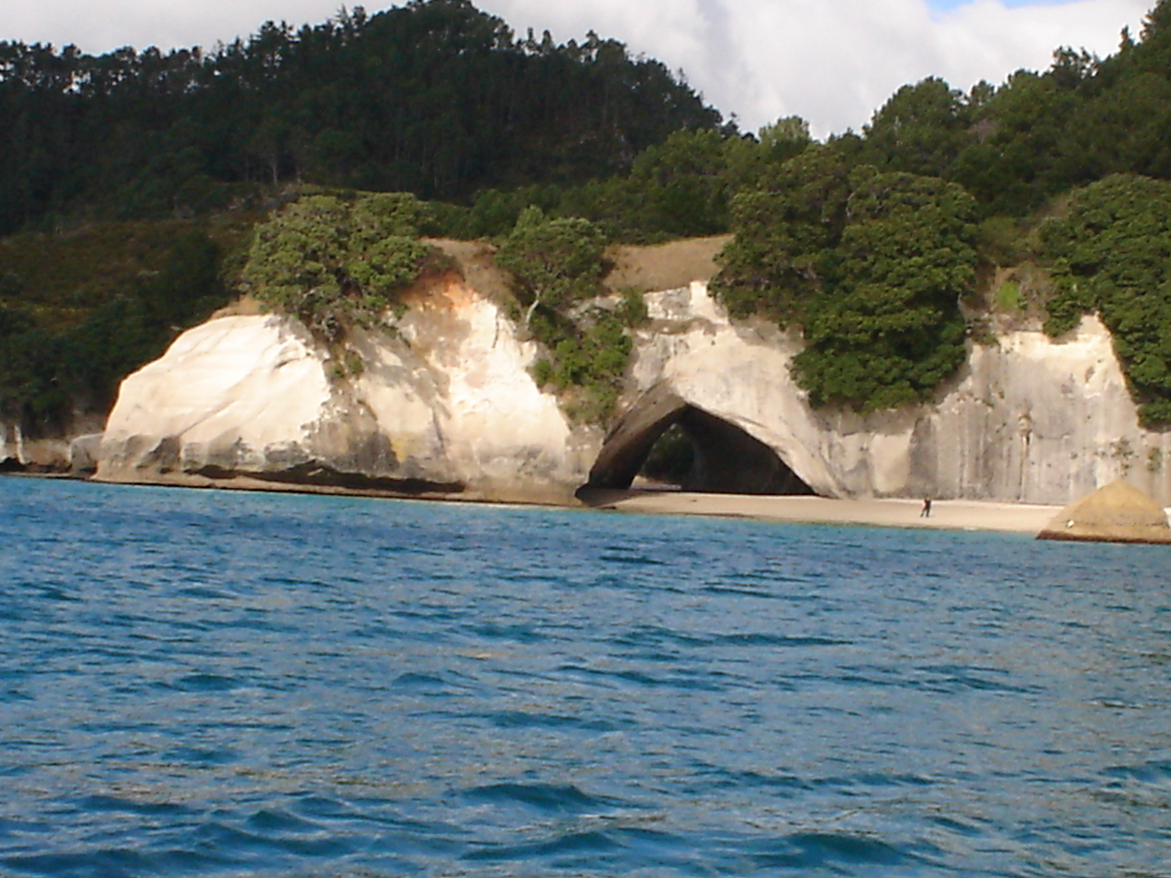 View towards Cathedral Cove, Coromandel Peninsula, New Zealand